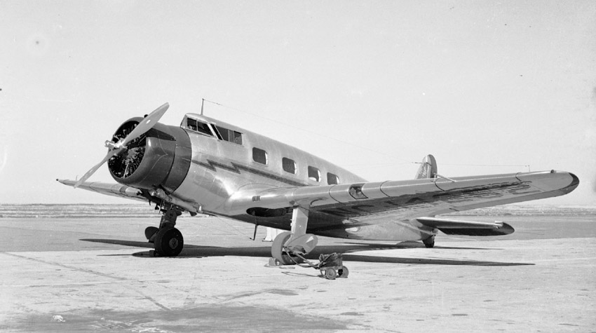 George Fuller's (Fuller Paint Co) beautiful V-1A at San Francisco in 1939.